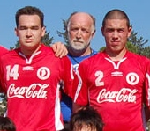 Jens Tang Olesen (center), former coach of the Greenland national football team.